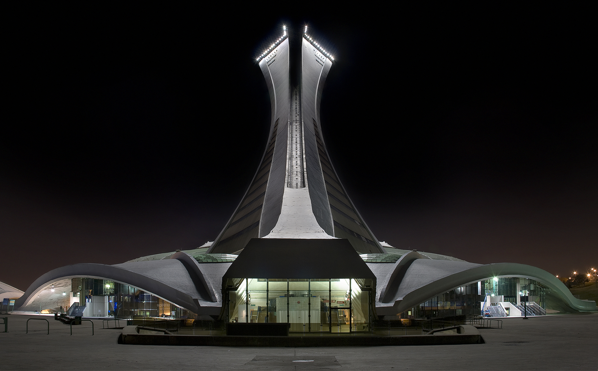 The Montreal Olympic Stadium as seen by night, from the back. Made of 4 different exposition settings (0.5, 5, 10, 15). Edited version (perspective correction) of Image:Le_Stade_Olympique_de_Montréal_Nuit_Arriere.jpg